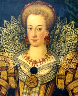 Unknown, possibly Cecilia Vasa